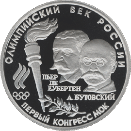 Commemorative coin - First Congress of the International Olympic Committee